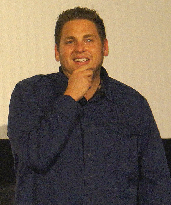 Jonah Hill at the screening of "This Is the End" in June 12, 2013